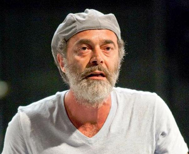 Daniele Nuccetelli